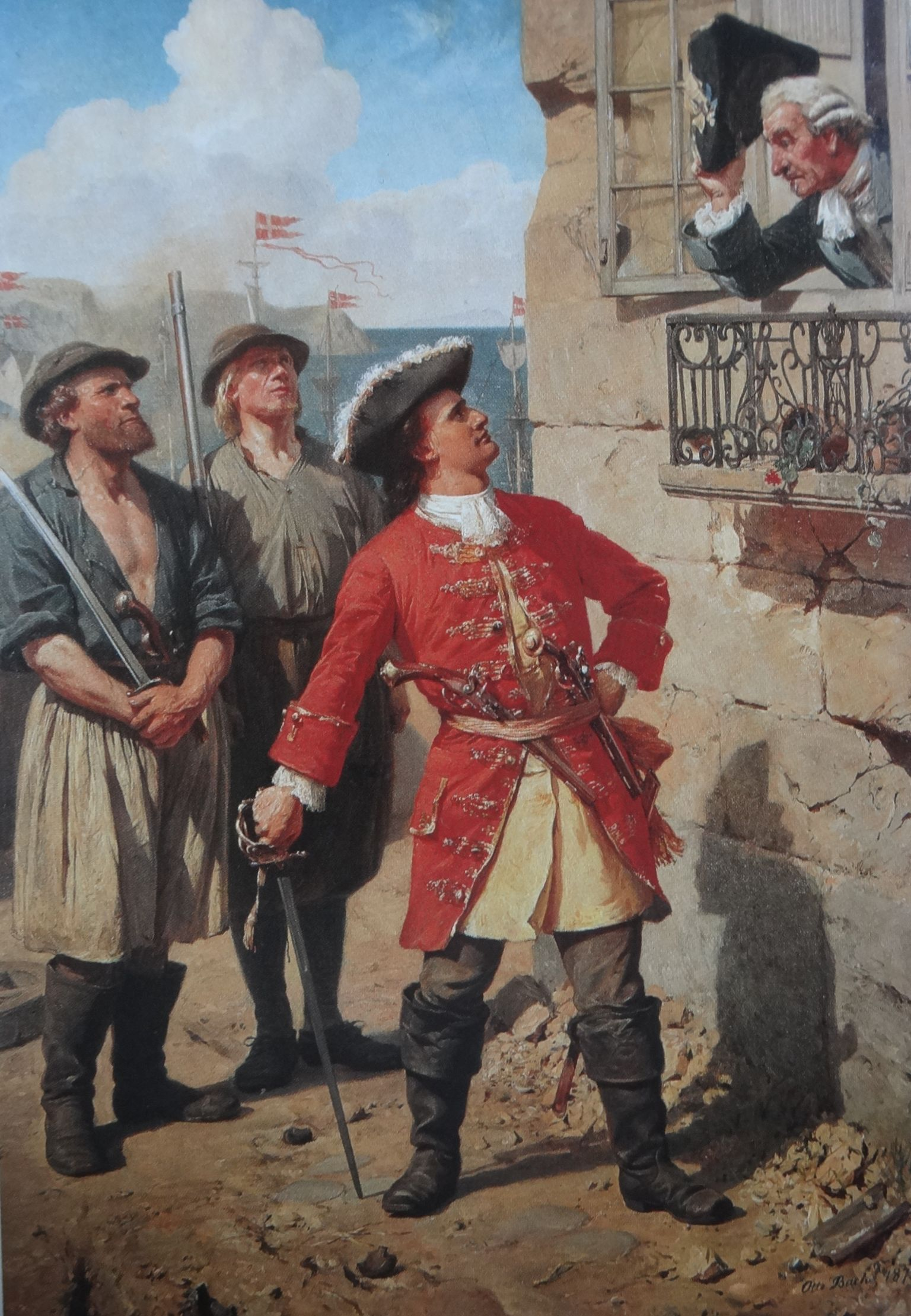 "What is taking you so long?" The Danish-Norwegian admiral Tordenskjold threatens the commendant Danckwardt in the Swedish city Marstrand during the siege 1719.